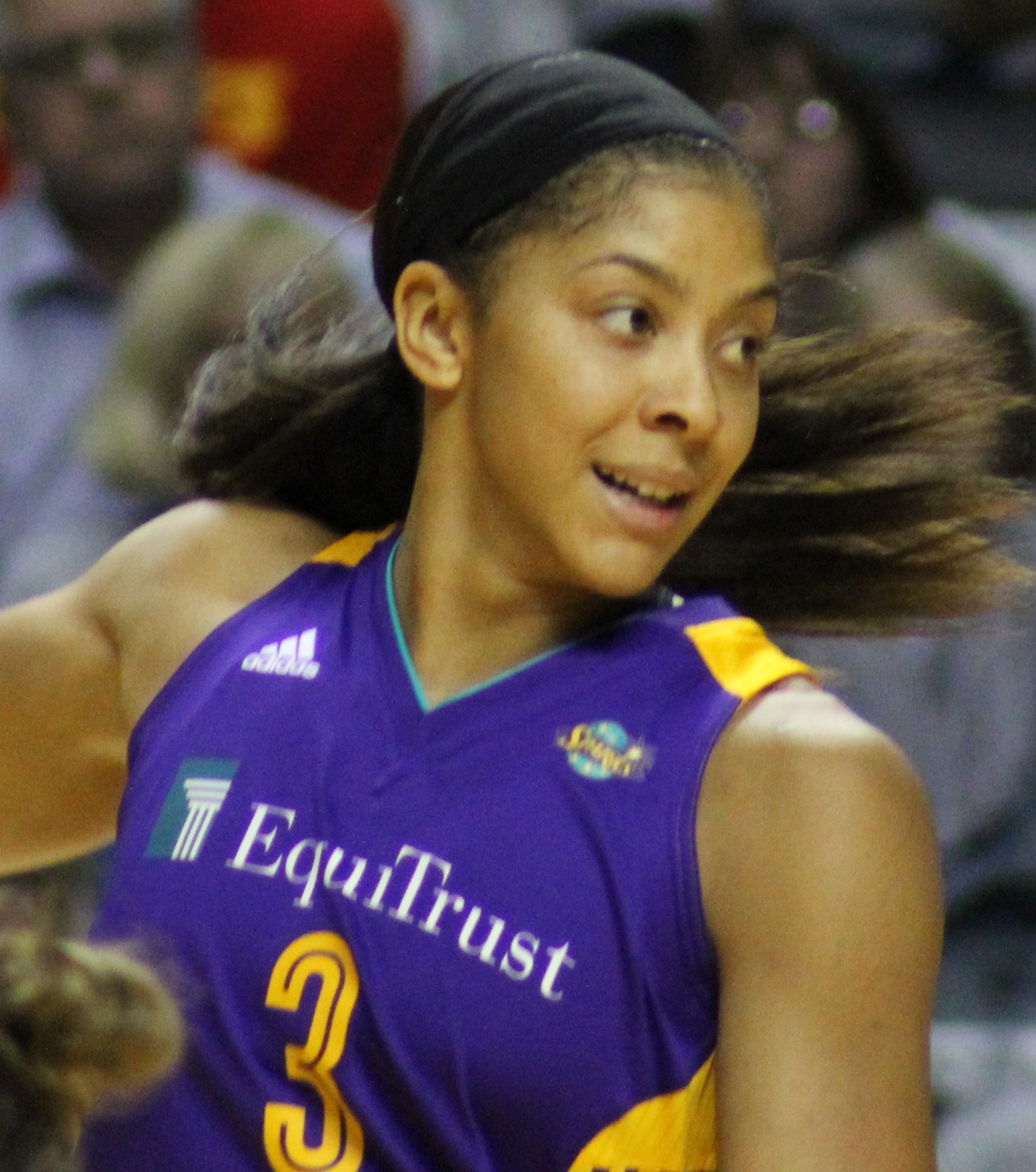 Candace Parker of the Los Angeles Sparks during the 2017 WNBA Finals